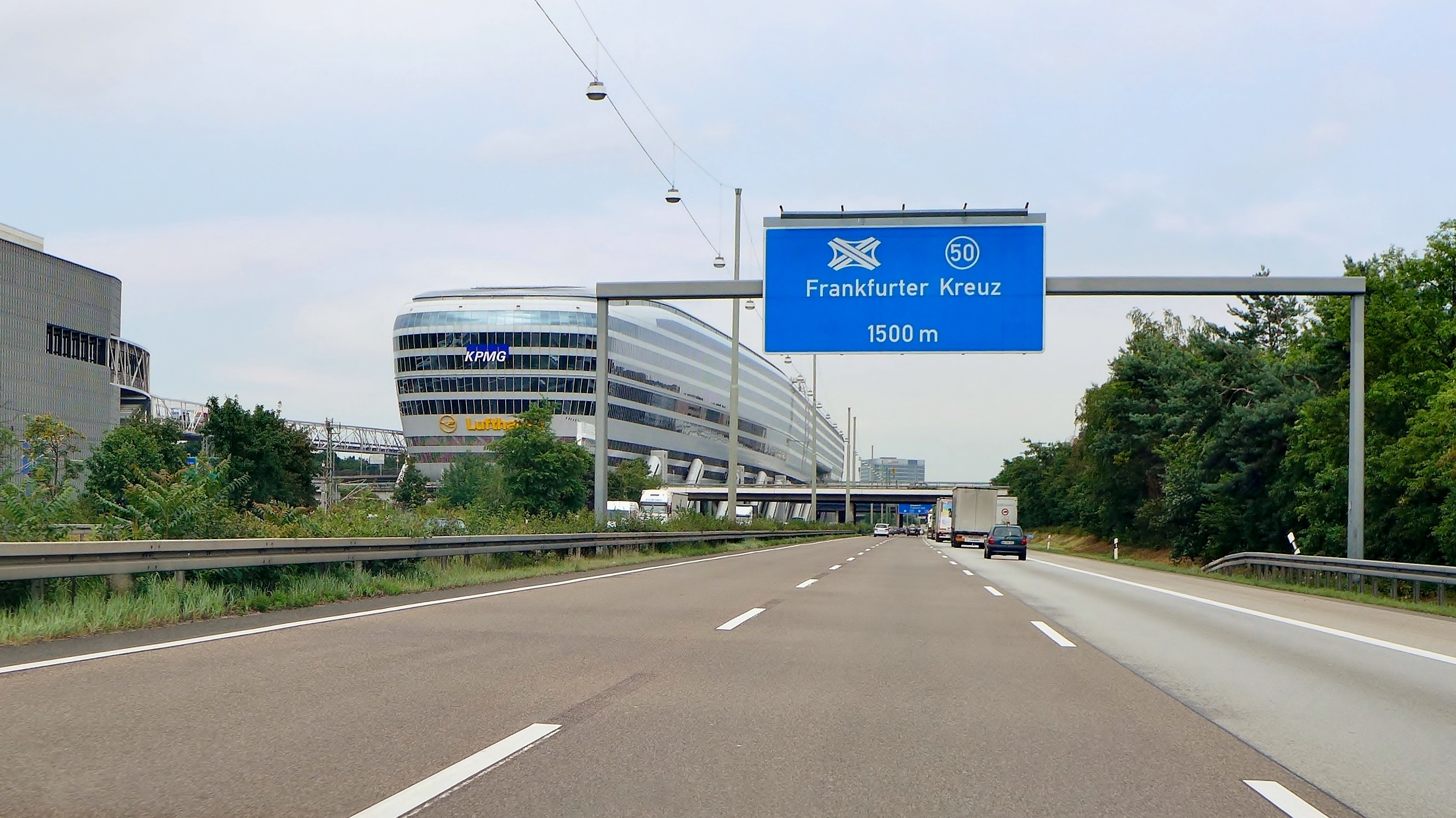 A sign gantry straddling the western approach of Bundesautobahn 3 to the Frankfurter Kreuz, Hesse, Germany.At centre left is the largest office building in Germany, The Squaire, which is located above the Frankfurt Airport long-distance railway station.Not visible behind the vegetation at right is Frankfurt Airport.